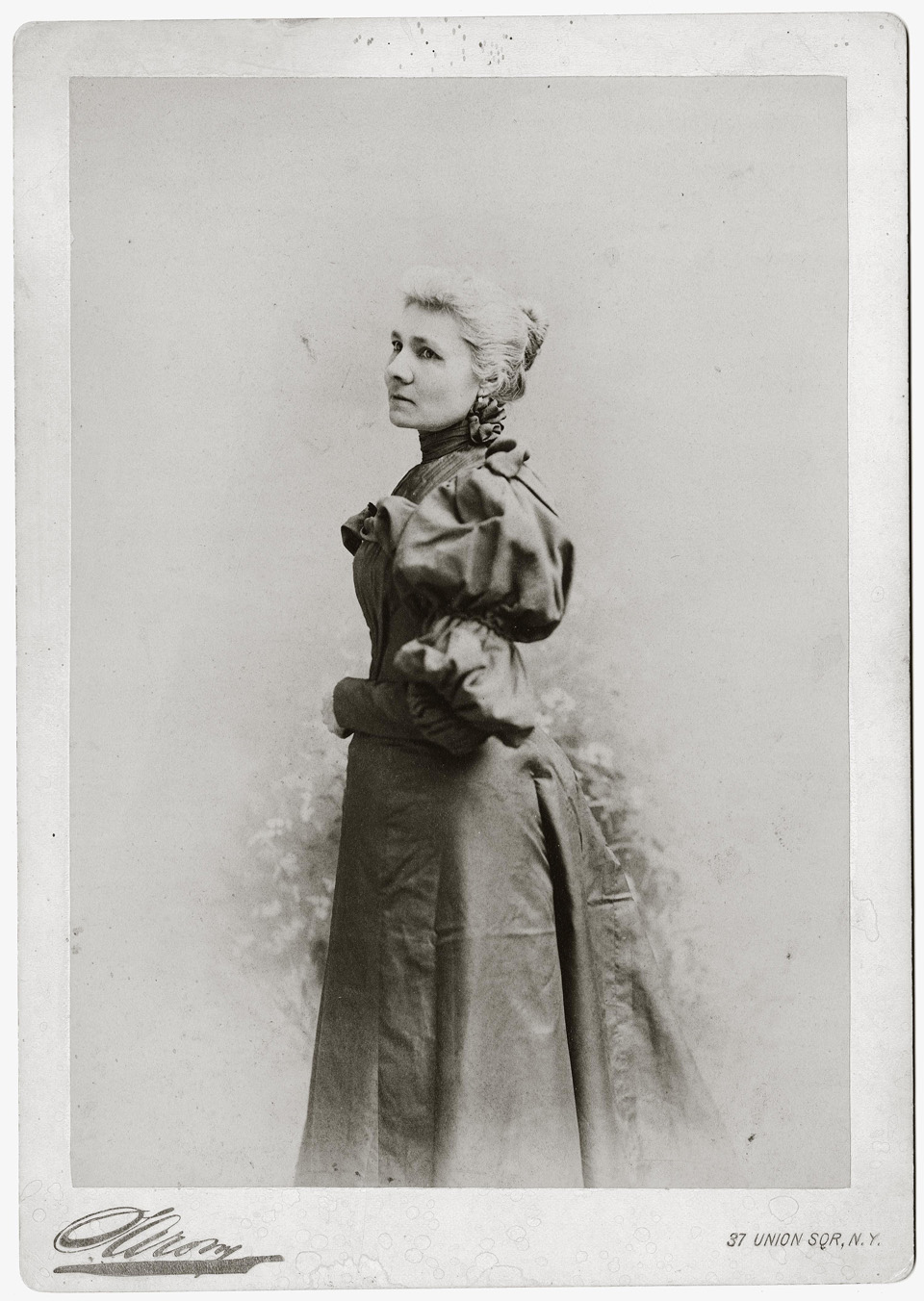 Helen P. Clarke, Montana Historical Society Photograph Archives, Helena, 941-745